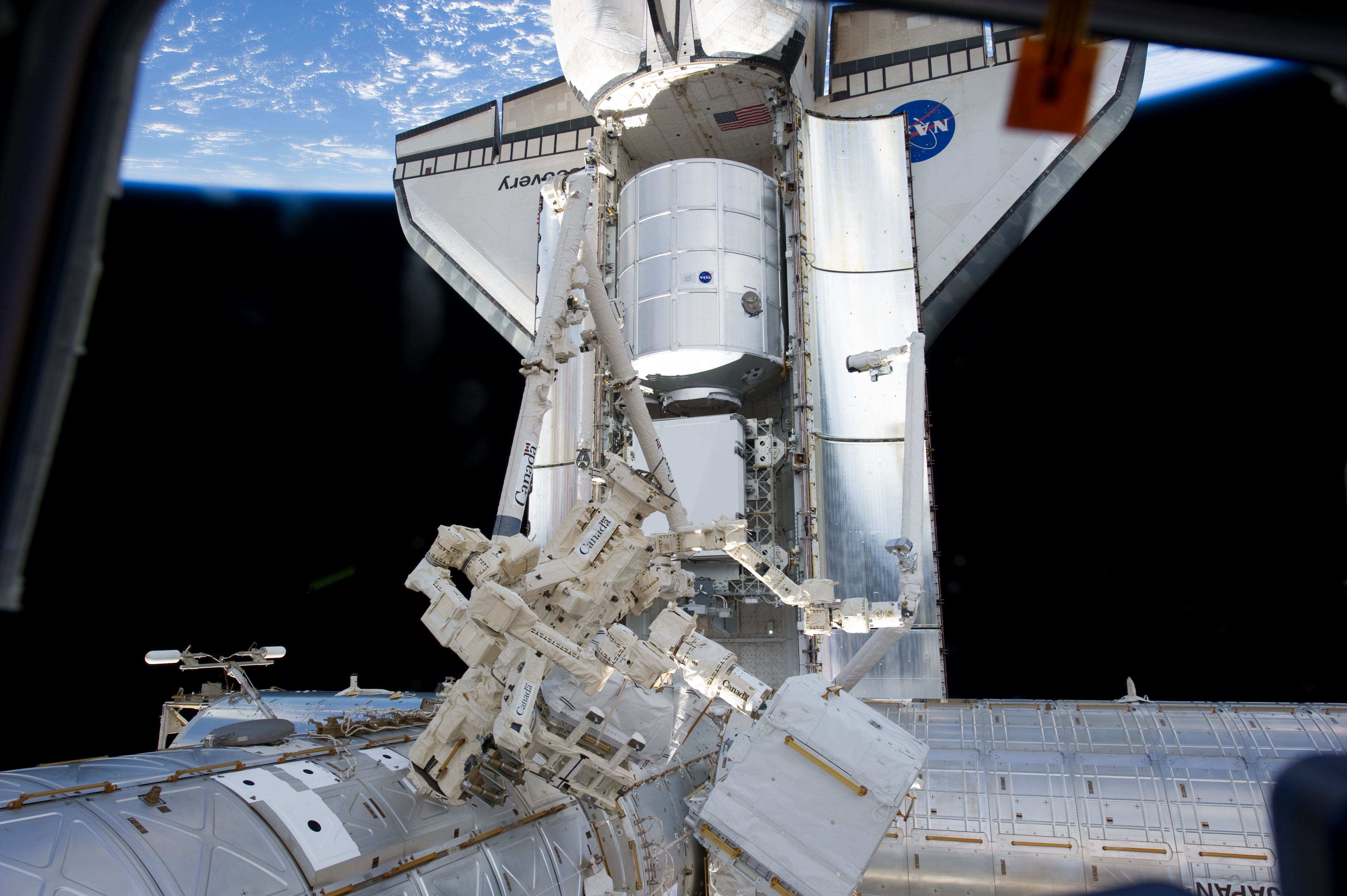 The docked space shuttle Discovery and the Canadian-built Dextre, also known as the Special Purpose Dextrous Manipulator (SPDM), are featured in this image photographed by an STS-133 crew member on the International Space Station. The blackness of space and Earth's horizon provide the backdrop for the scene.